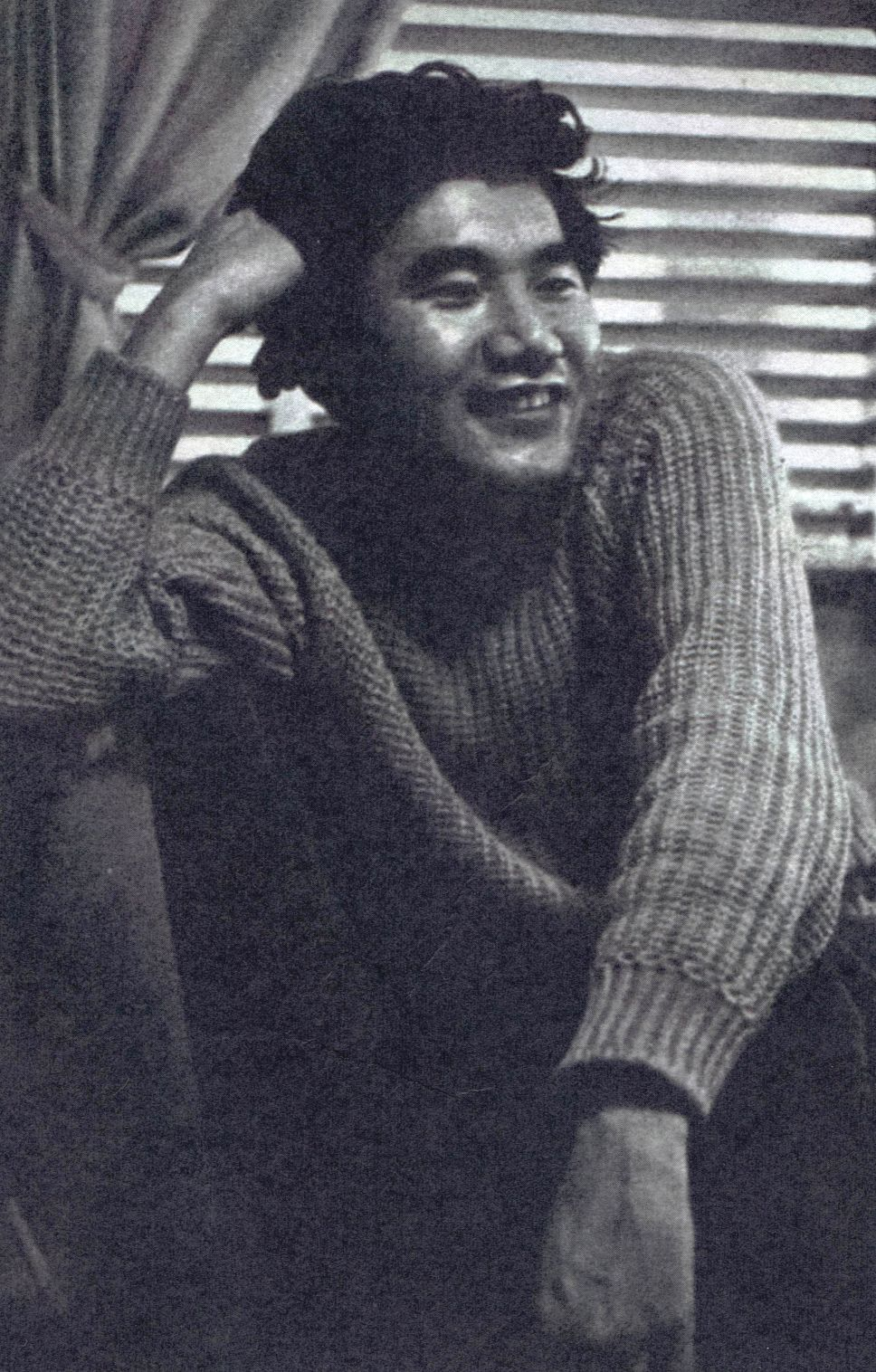 Makoto Oda